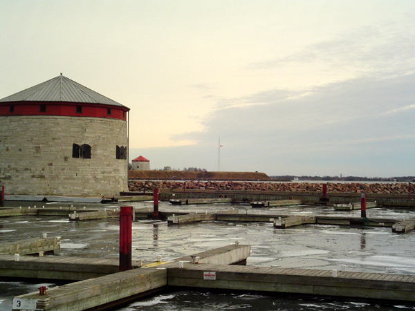 Personal photo: Line of Defense: the Shoal Martello Tower in Kingston with the Royal Military College of Canada and the tower at Fort Frederick in the middleground and the Cathcart Tower on Cedar Island in the deep background. January, 2005. Lasergirl69 03:56, 26 August 2007 (UTC)